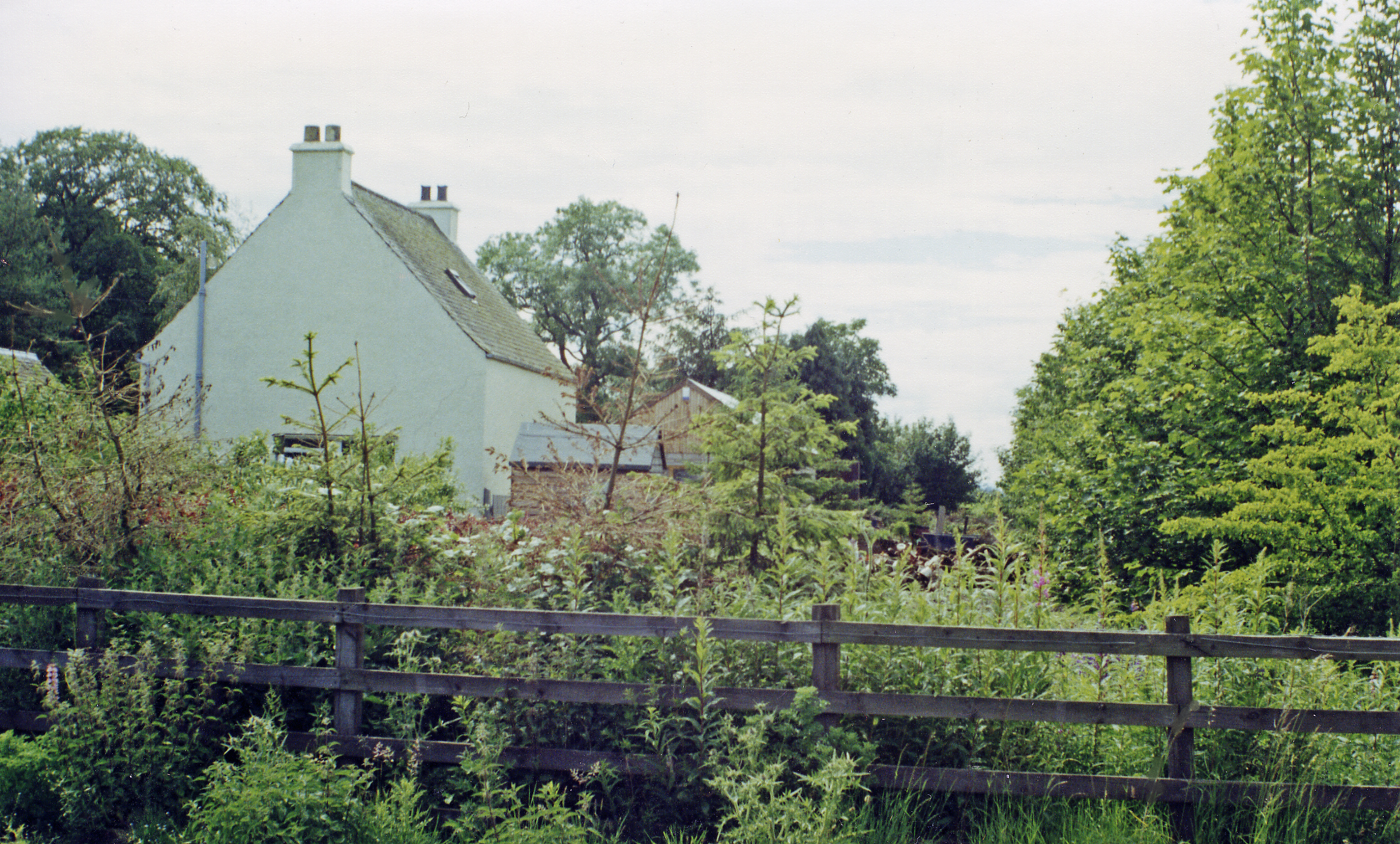 Ardler station (site/remains), 1997. View westward, towards Perth etc.: ex-Caledonian Strathmore main line, Perth (Stanley Junction) - Forfar - Bridge of Dun - Kinnaber Junction - (Aberdeen). Ardler station was closed to passengers 11/6/56 (to goods 21/6/65) and the through route was closed from 4/9/67. All that seemed to be left 30 years later was this!